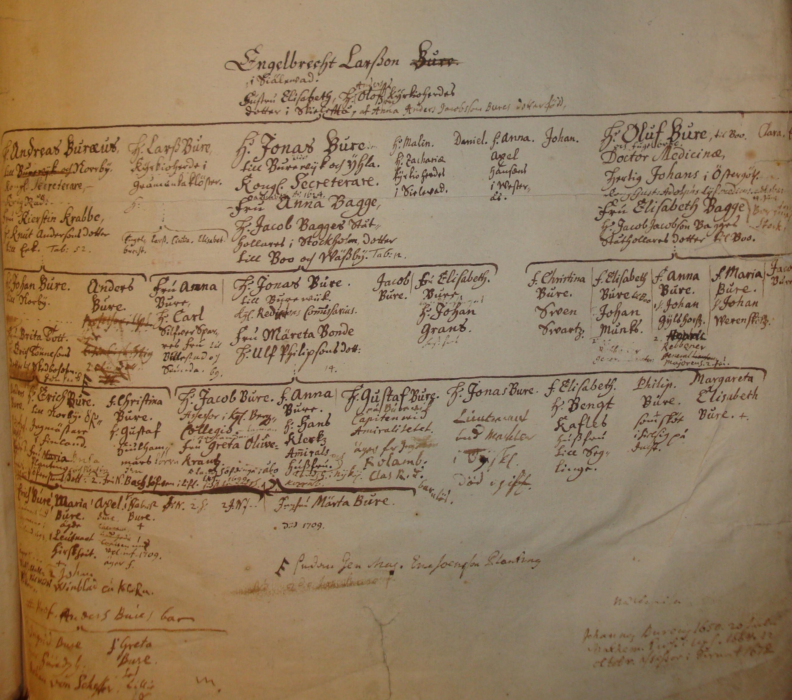 The first pedigree chart created for the branch of the Bure family that was first nobilitated, by Johan Peringskiöld (d. 1720). Now in the "Peringskiölds genealogier", vol. 1, Swedish House of Nobility, Stockholm.